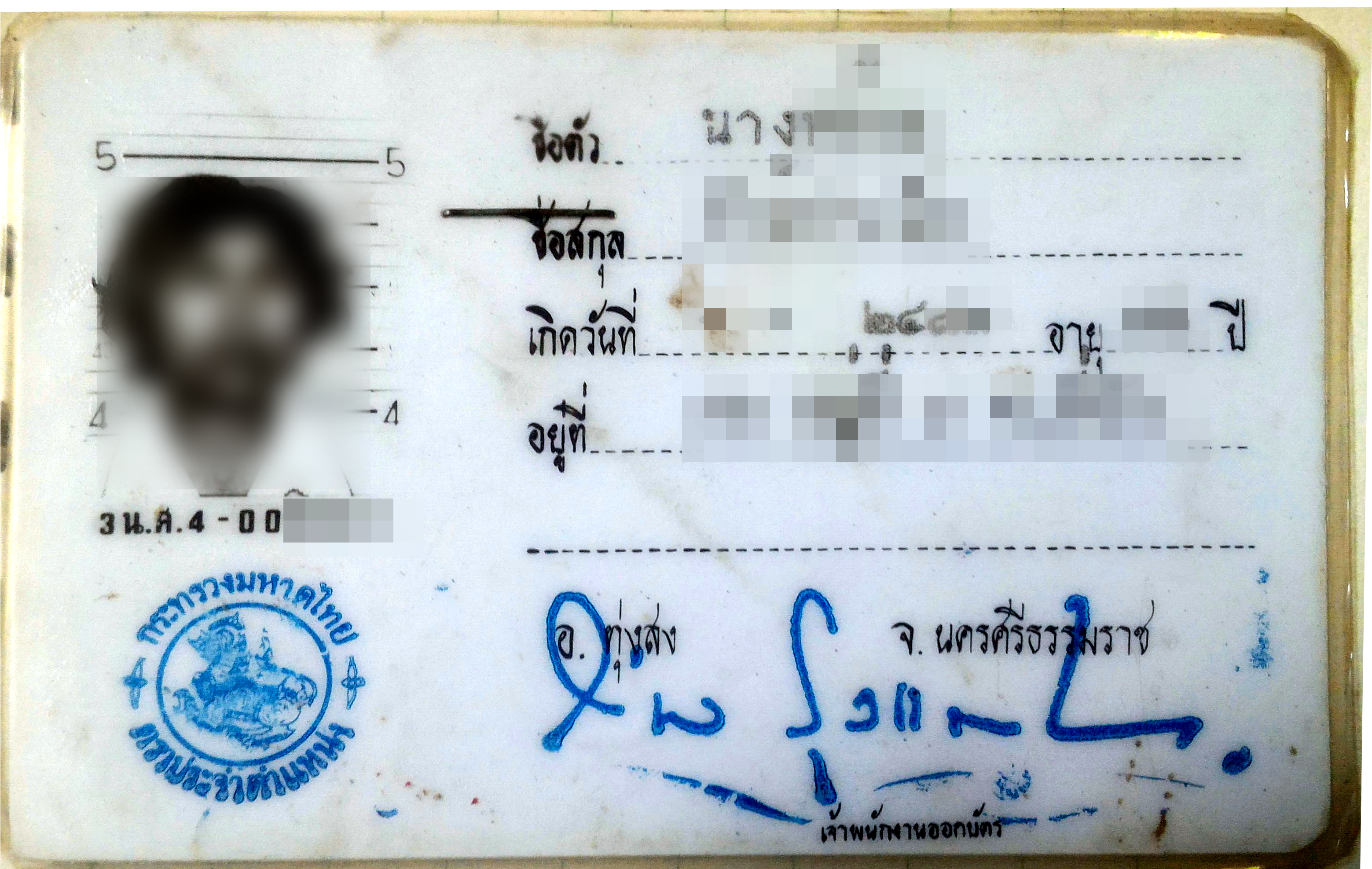 The front page of Thailand's citizen identity card issued at Thung Song district office, Nakhon Si Thammarat province in Feb. 1st, 1976. It's the 2nd generation of the Thailand ID card. Some details are censored due to owner's privacy concern.